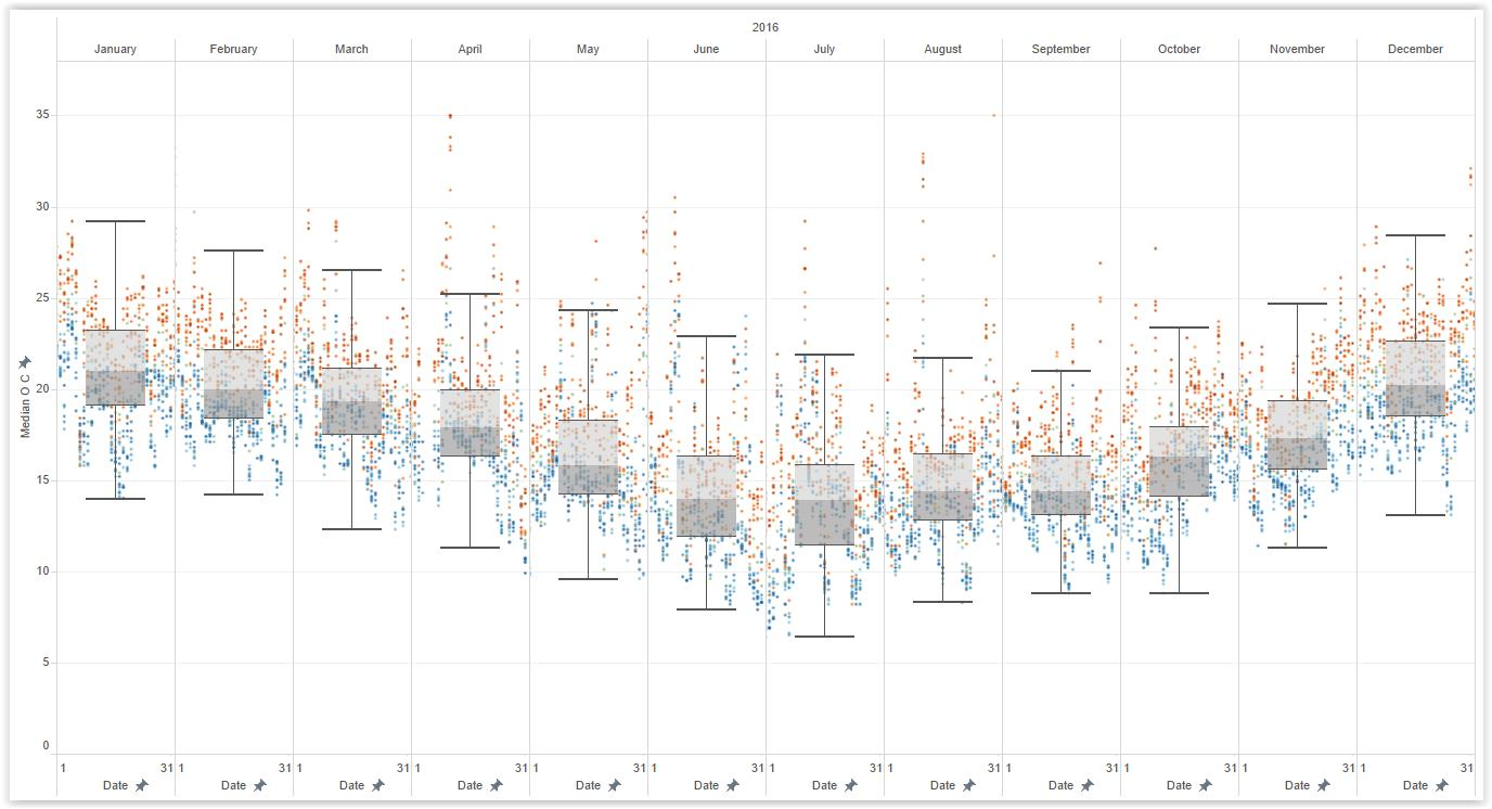 Data supplied by SAWS 2016